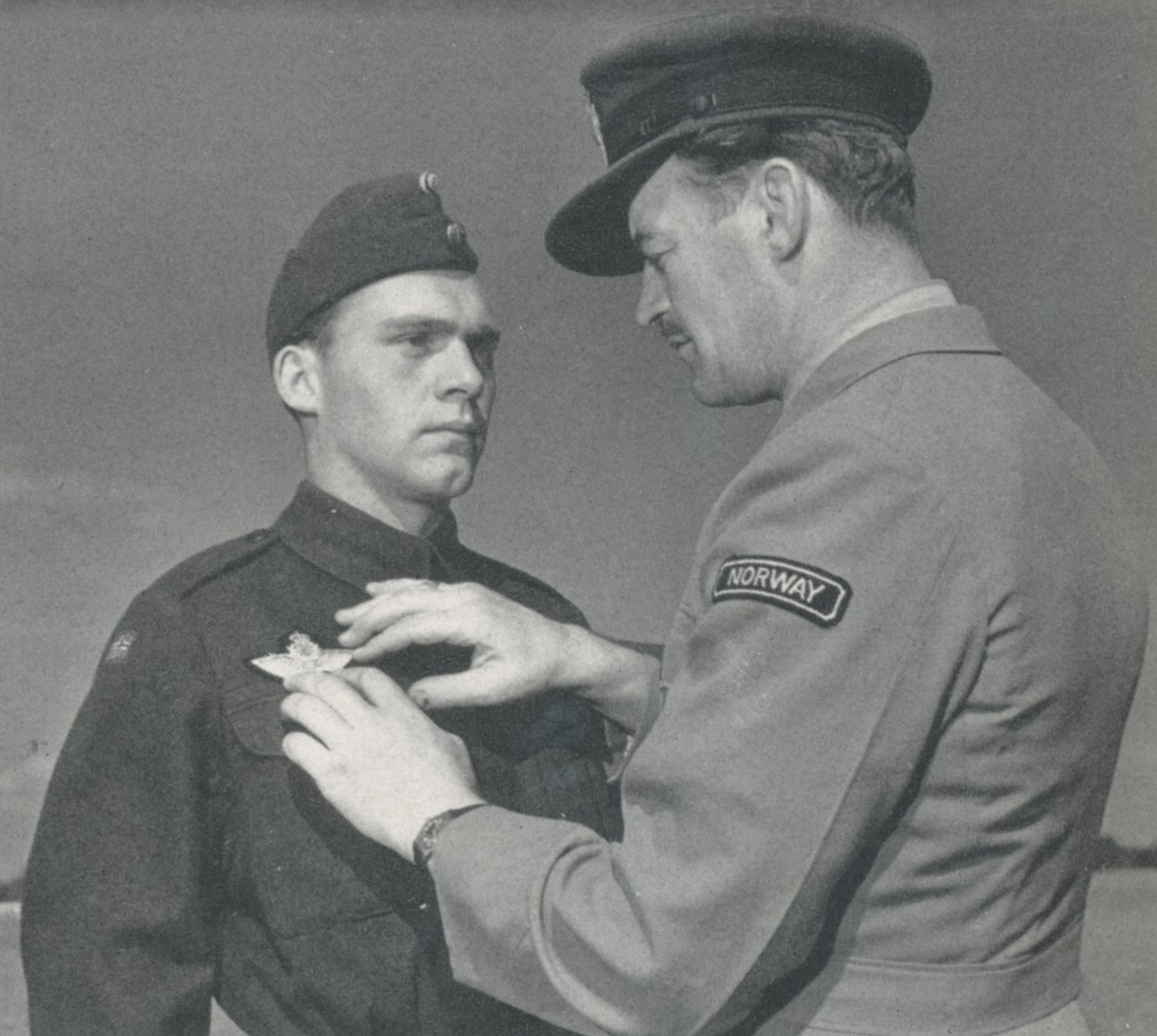 Birger Tidemand-Johannessen receives his wings, Canada 1943